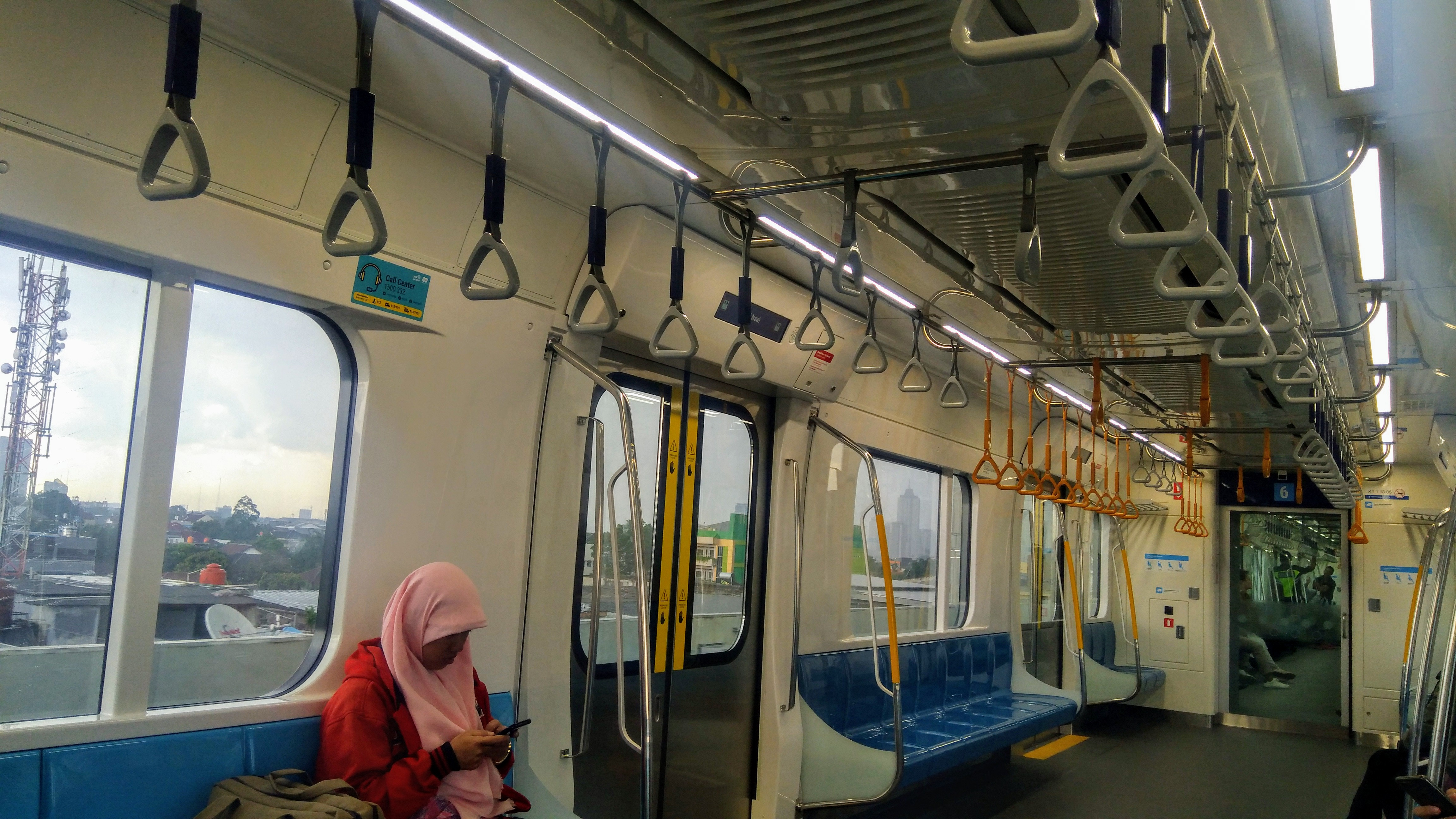 Interior of Jakarta MRT train, Ratangga